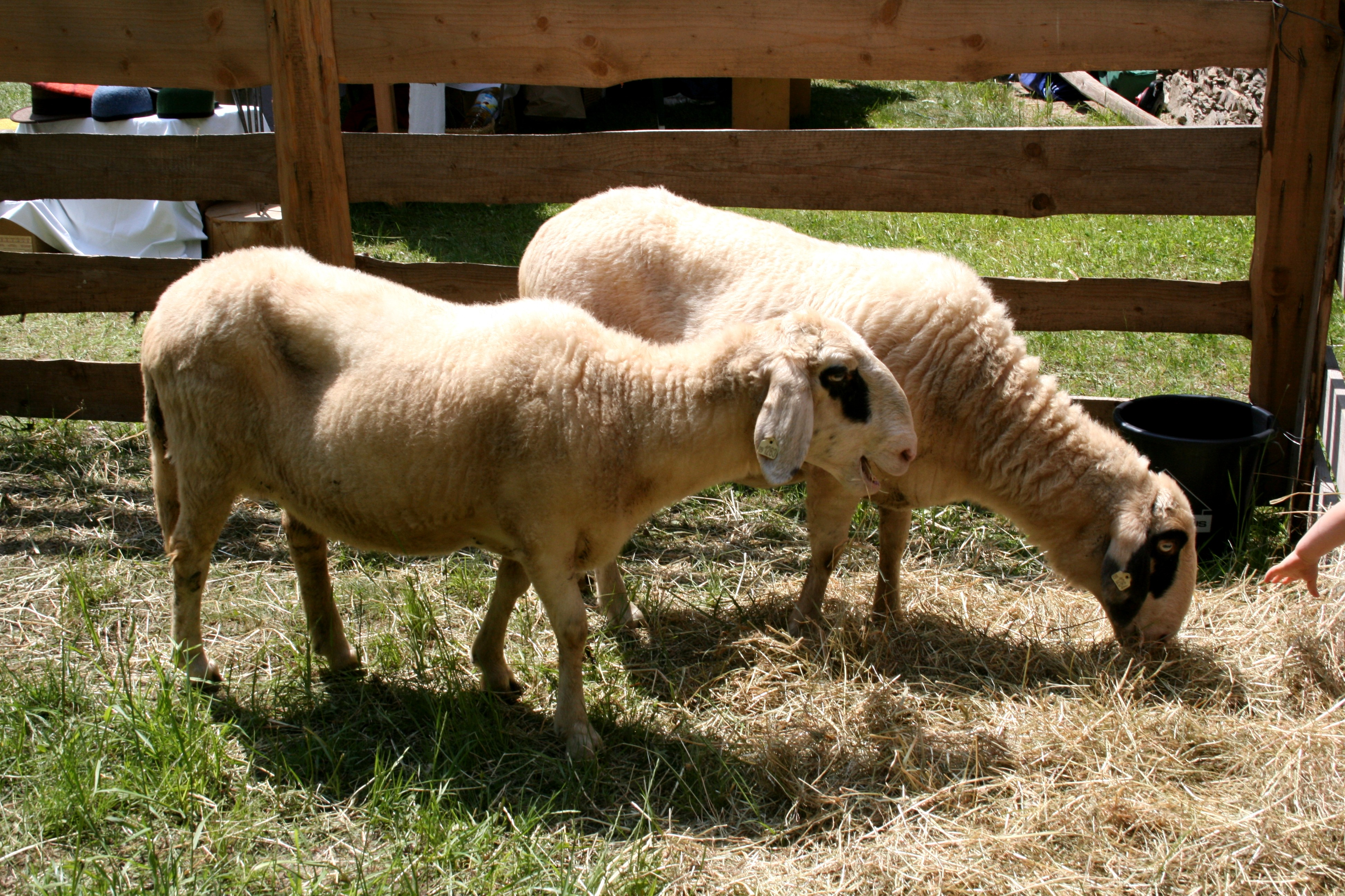 "Kärntner Brillenschaf" in Styria, Austria, Europe